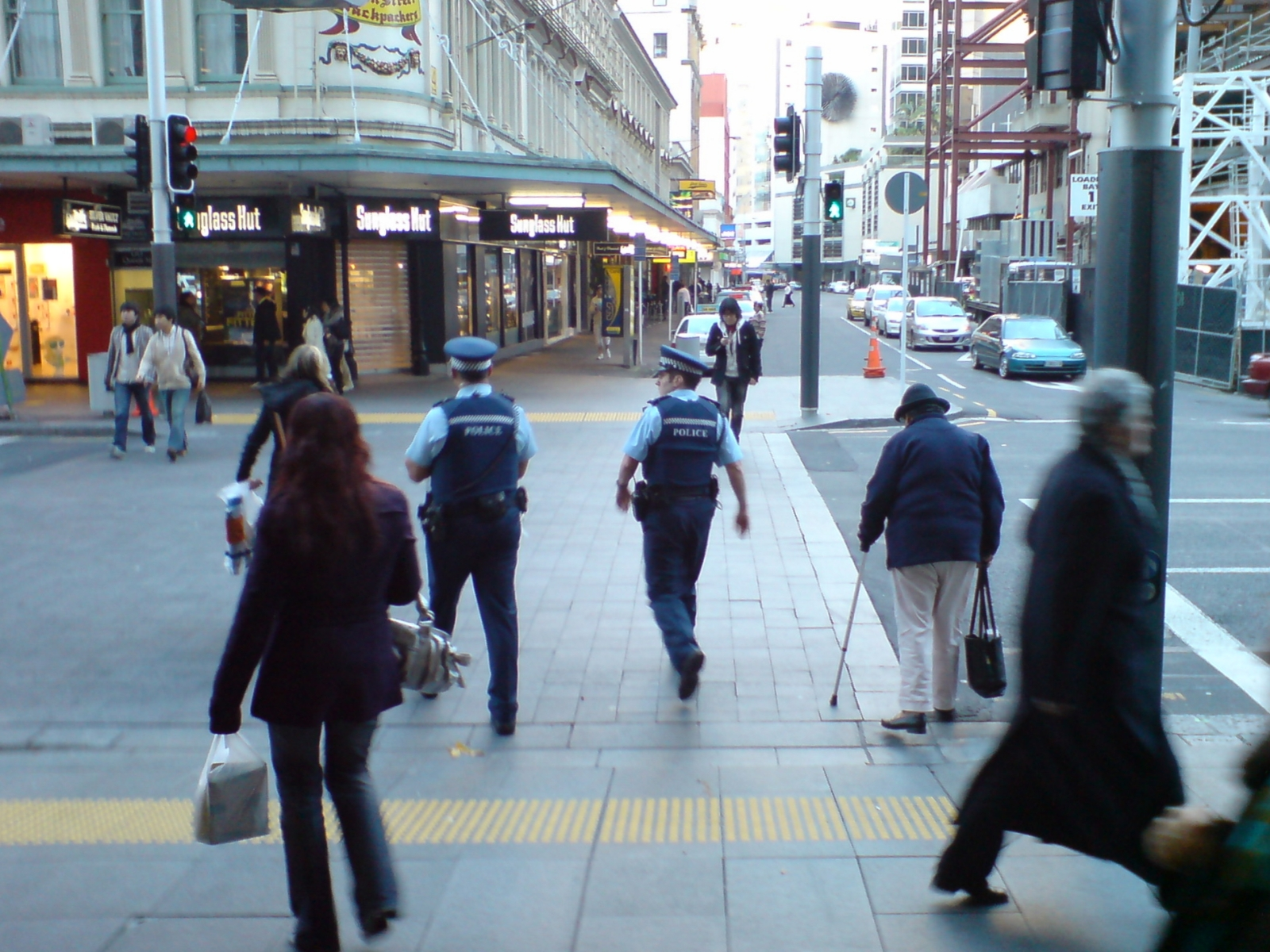 Police officers in the Auckland CBD, New Zealand. Looking east onto Fort Street.